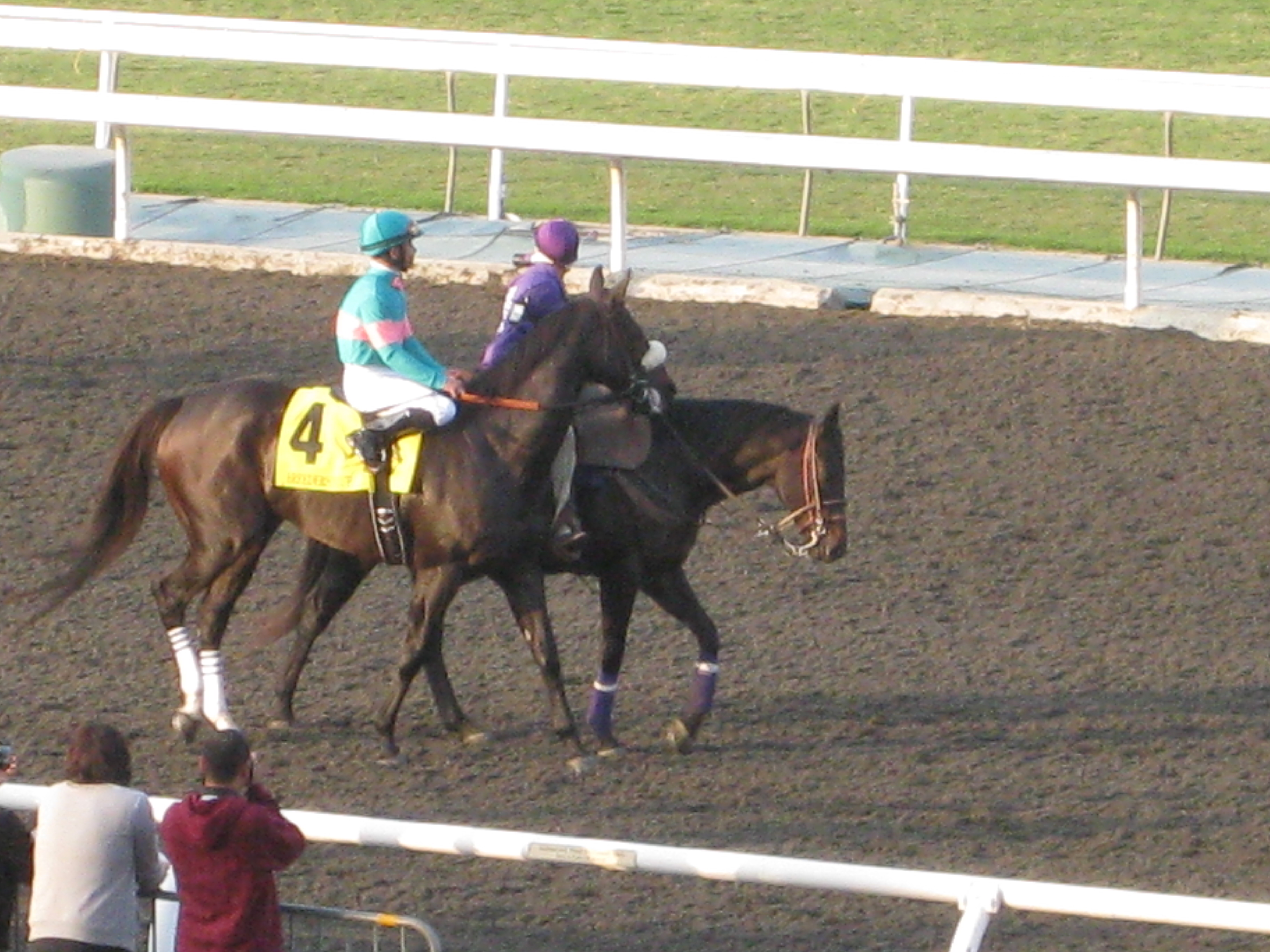 Zenyatta didn't jog to warm up for the 2009 Breeders Cup Classic. Instead, they opted to walk her quietly in front of the Santa Anita grandstand whilst the others jogged and loped for a warm up. She is rumored to be a bit of a ham, and she certainly did her bit of statuesque posing for her admirers. Effortlessly uploaded by Eye-Fi